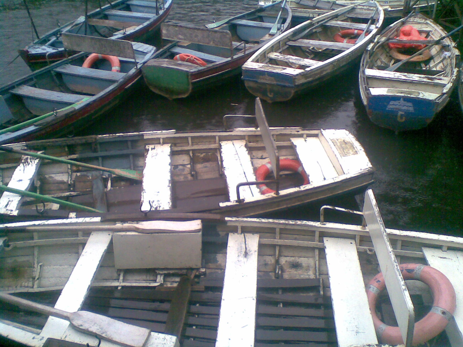 This photo depicting the boat house boats in Kodaikanal. This boat house is maintained by Government of Tamil Nadu.